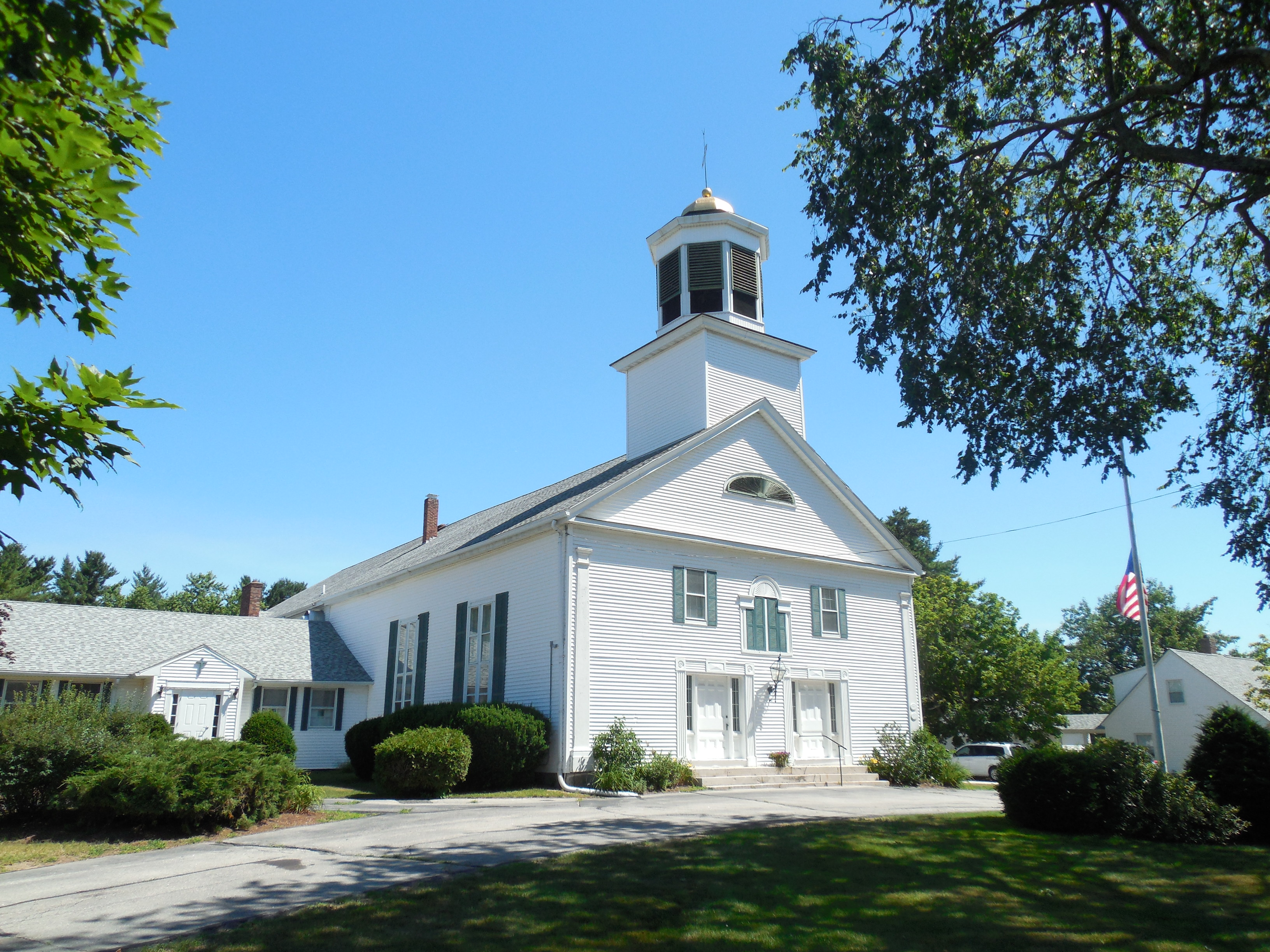 First Congregational Church, Merrimack New Hampshire